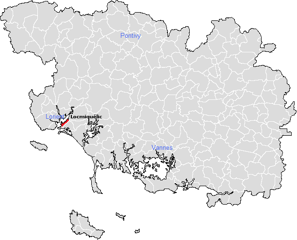 location of Locmiquélic in Morbihan departement